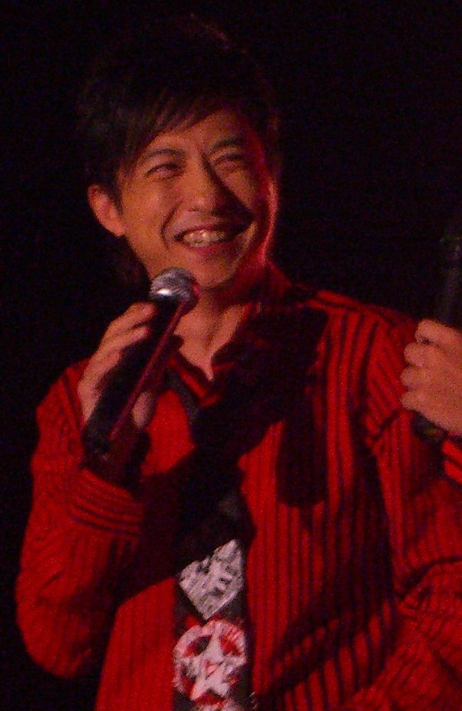 Harlem Yu at Taiwan Shin Hsin University 50th anniversary celebrations concert 庾澄慶 於台灣世新大學50周年校慶演唱會上